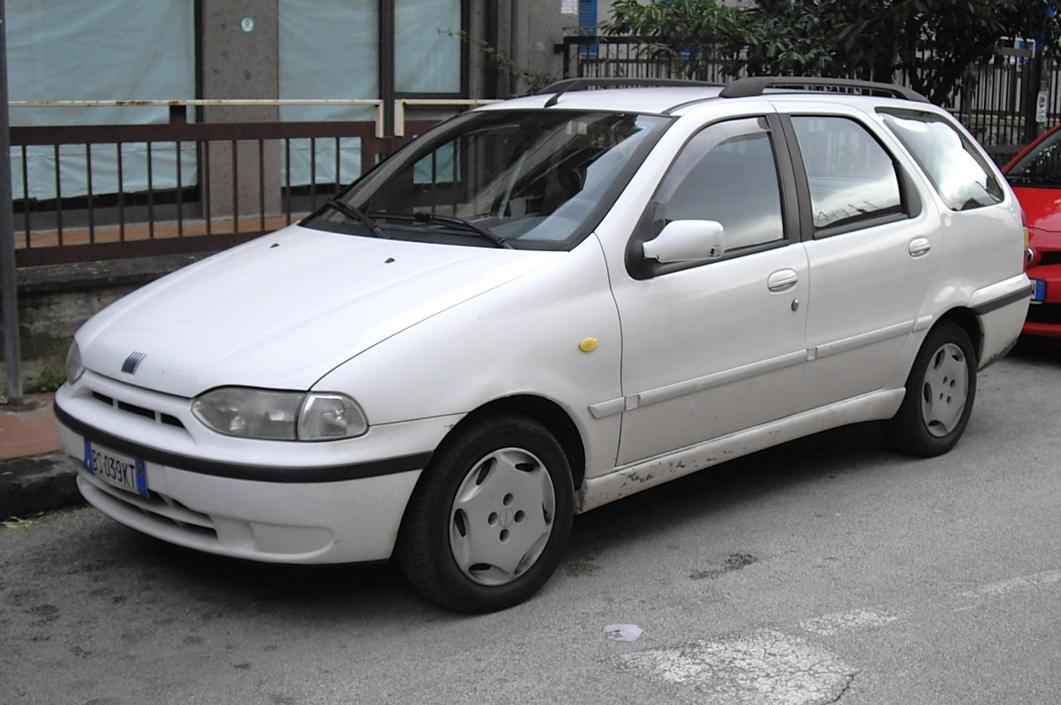 Fiat Palio Weekend.